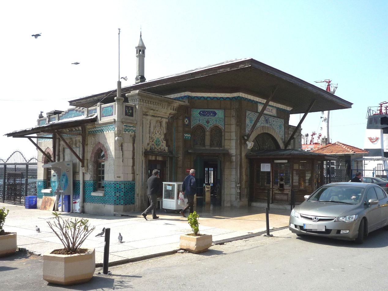 The ferry in front of Istanbul Haydarpaşa Terminal